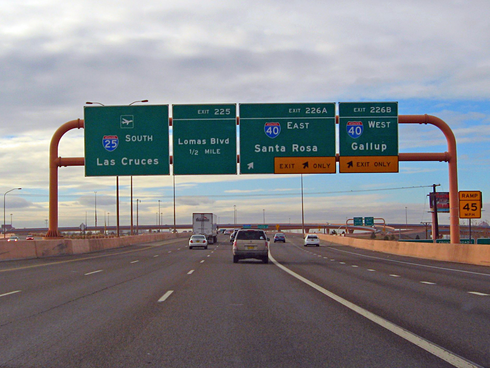 Junction of I-25 and I-40 near Downtown Albuquerque, New Mexico